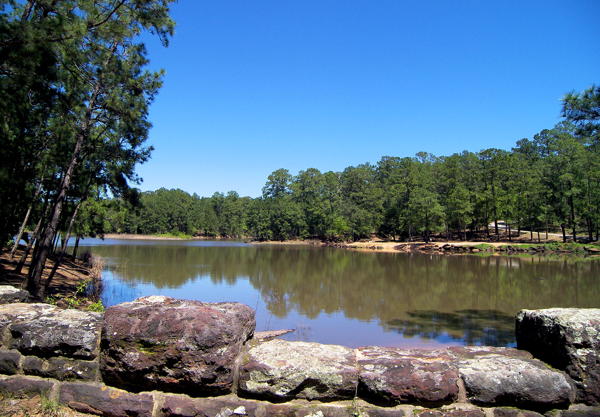 Bastrop State Park Lake is prime breeding habitat for the endangered Houston toad. The lake is closed to the public during their mating season in February, March, and April. The lake drained when the impounding earthen dam failed on May 25, 2015 due to heavy rains in the Bastrop area.